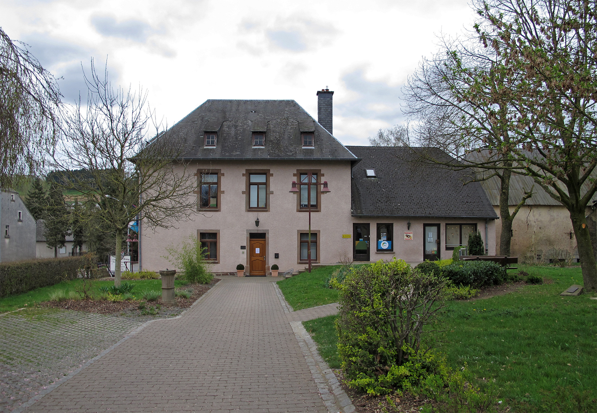 Town hall of the municipality of Feelen in Niederfeulen